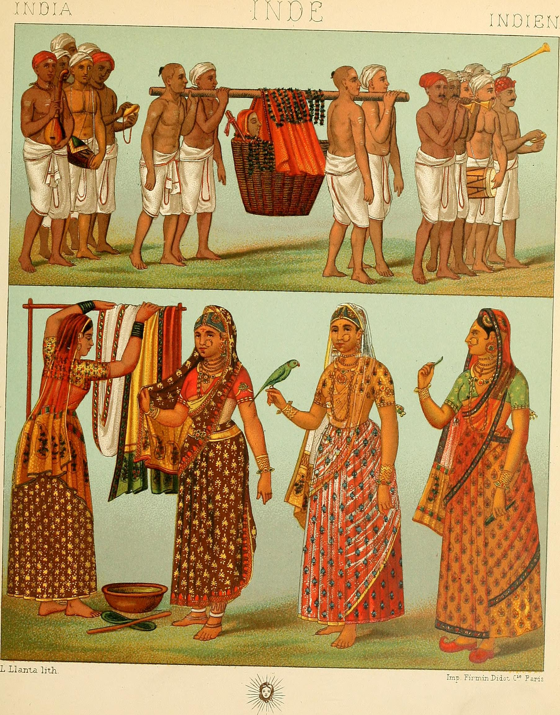 Title: Le costume historique. Cinq cents planches, trois cents en couleurs, or et argent, deux cents en camaieu. Types principaux du vêtement et de la parure, rapprochés de ceux de l'intérieur de l'habitation dans tous les temps et chez tous les peuples, avec de nombreux détails sur le mobilier, les armes, les objets usuels, les moyens de transport, etc Year: 1888 (1880s) Authors: Racinet, A. (Auguste), 1825-1893 Subjects: Costume Costume Publisher: Paris, Firmin-Didot et cie Text Appearing Before Image: rmant des faisceauxséparés par des motifs de bijouterie j à ce collierest accroché le poitrinal du boudhiste, disque dorreprésentant le visage de quelque divinité indoue ;bracelets massifs ; épaulette de pierreries et richebrassard sur le bras maniant le Ichouttar à poignéerecourbée. Chaussures en tissu de fils dor. Les Mahrattes acquirent leur renommée au dix-septième siècle et devinrent prépondérants lors dela décadence de lempire mogol. Leurs dissensionsentraînèrent bientôt leur ruine ; ne pouvant résisterà la i^uissauce anglaise, ils perdirent successivementtoutes les provinces de leur vaste empire. Aujourdhui,les princes mahrattes qui régnent encore, doiventleur sceptre à la générosité du vainqueur. roductions de- jieintures exécutées var des mains indoues au commencement du siècle,et provenant de Pondichéry, oii elles ont été annotées. Voii-, pour le texte : Victor Jacquemont^ Voyage dans lInde. — E. Reclus, Géographie universelle. INDIA NDIEM Text Appearing After Image: i Llanta lith